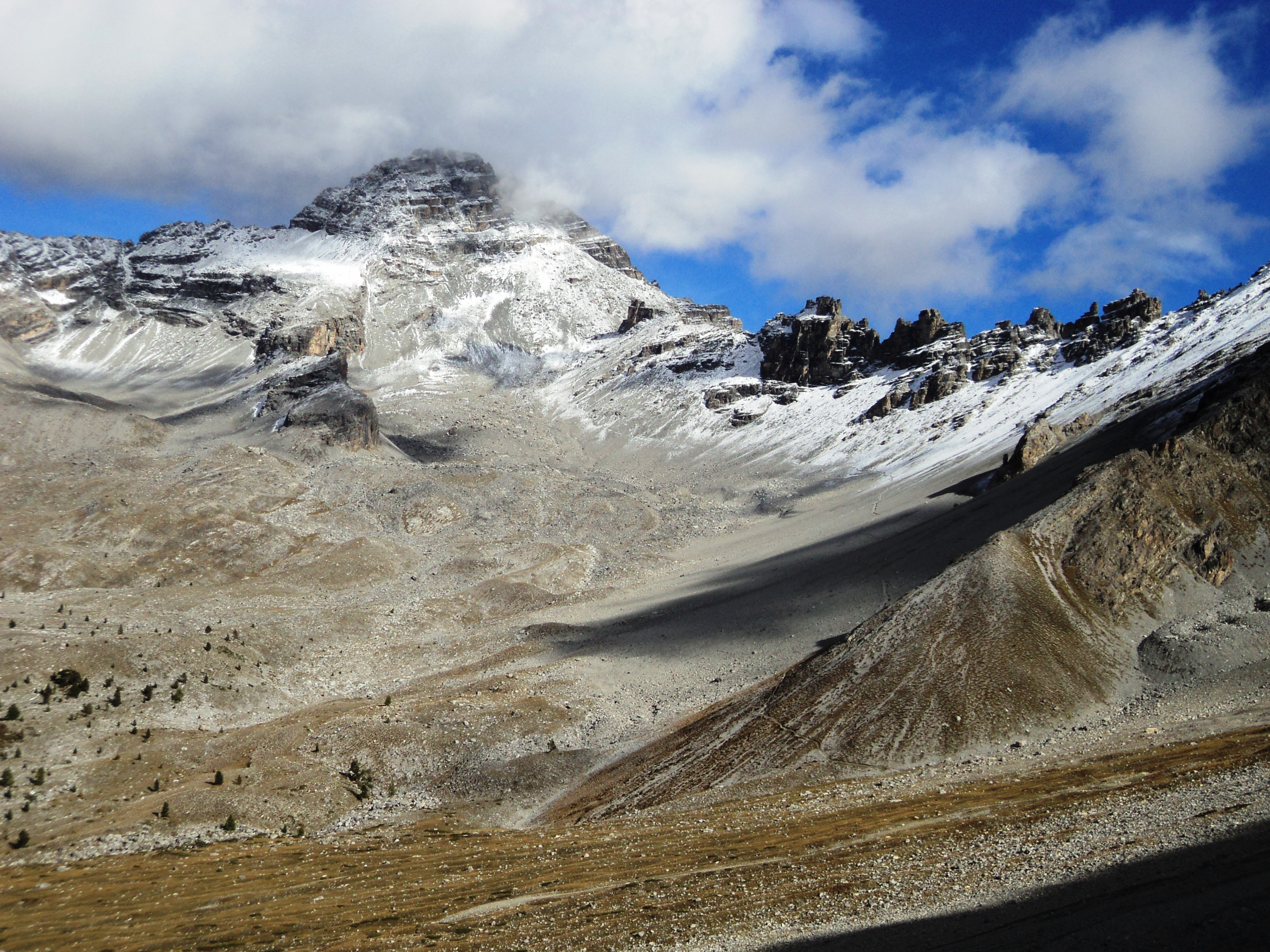 Pic de Rochebrune - Cottian Alps